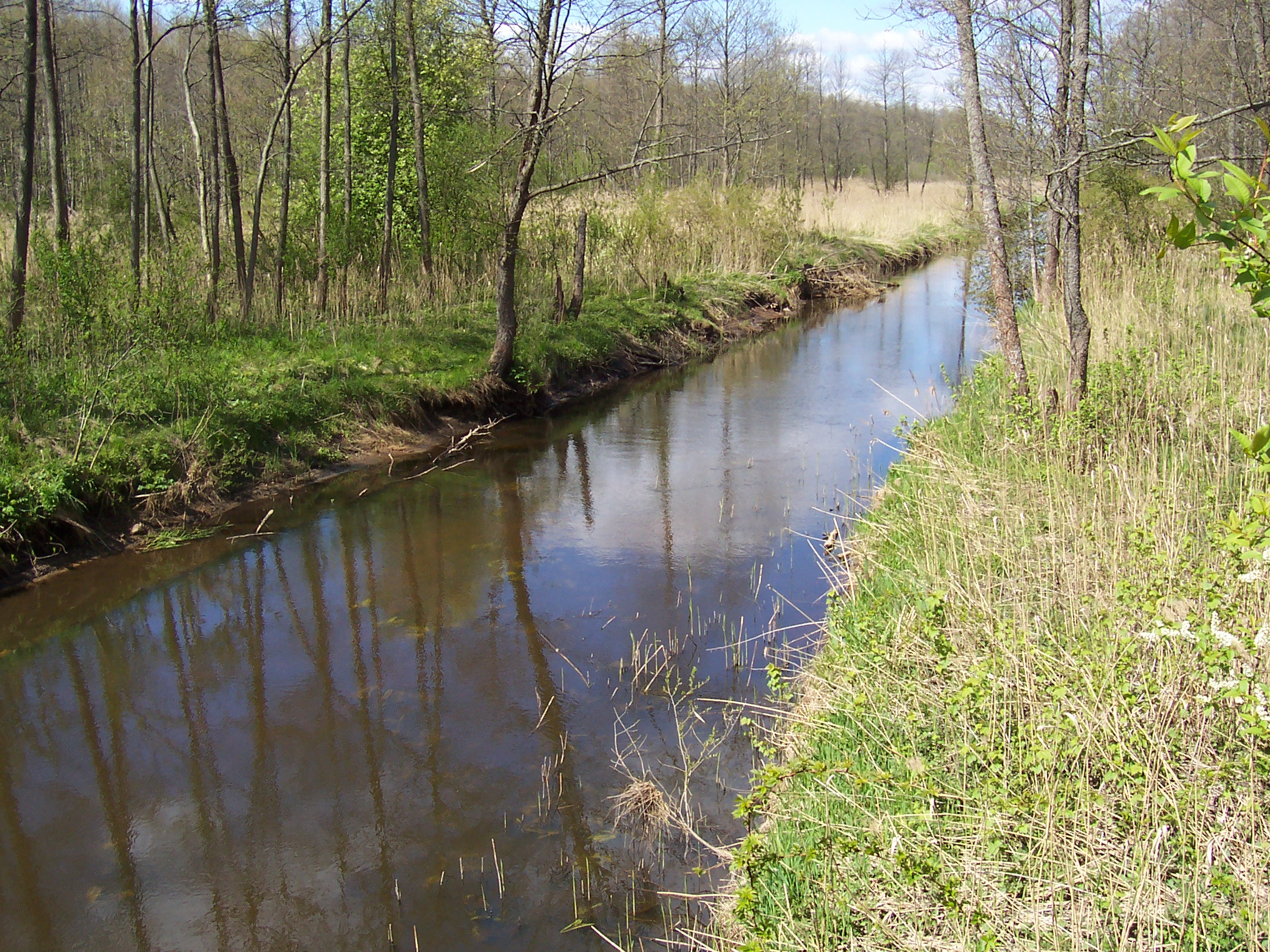 River Narewka in the nearby of Białowieża/Poland